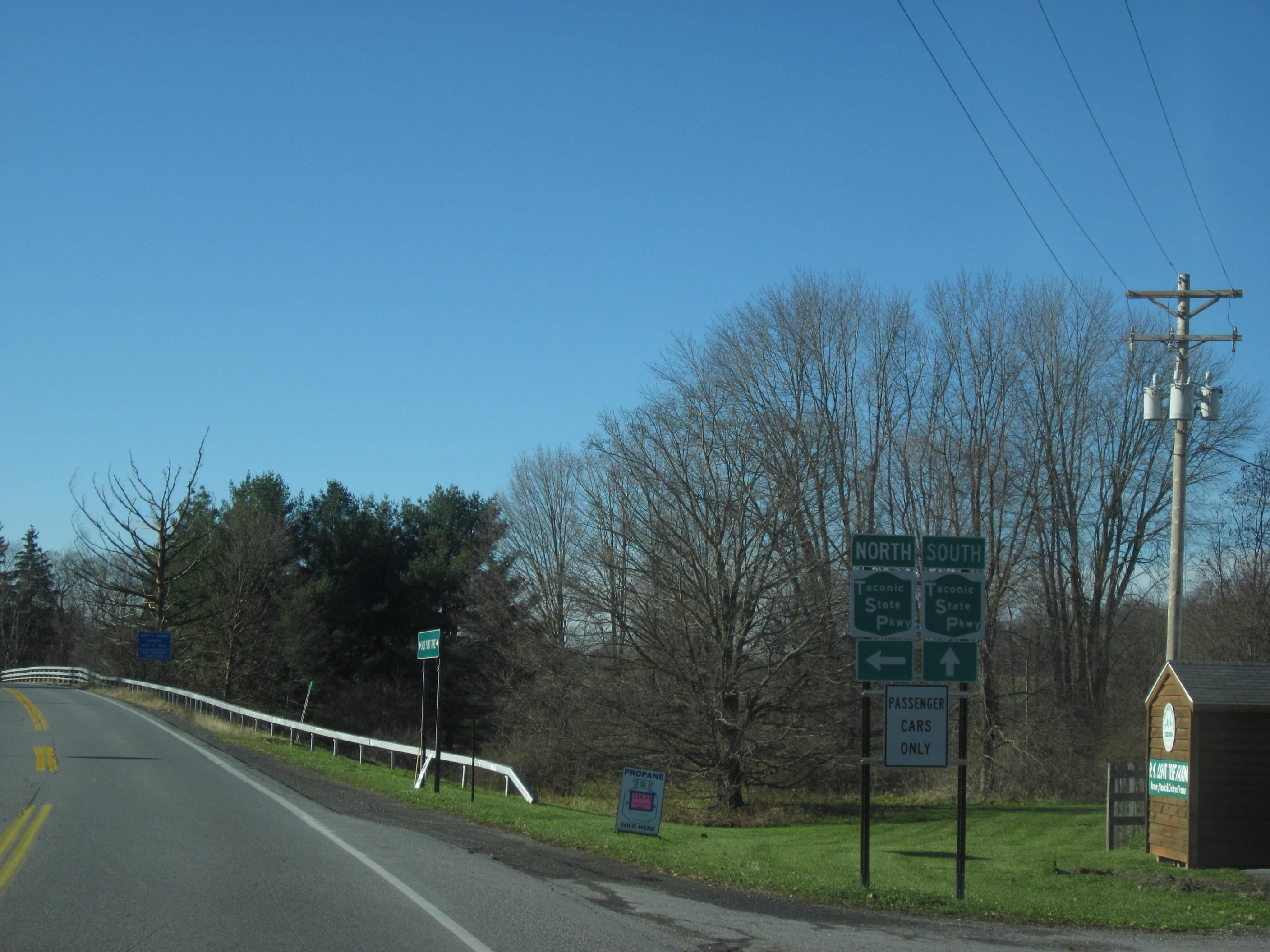 New York State Route 115 at the interchange with the Taconic State Parkway in Clinton, New York.